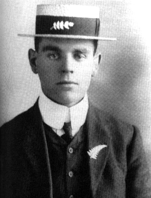 Photo taken in 1907 of Albert Henry Baskerville, rugby league pioneer. Due to age of photo copyright expried.